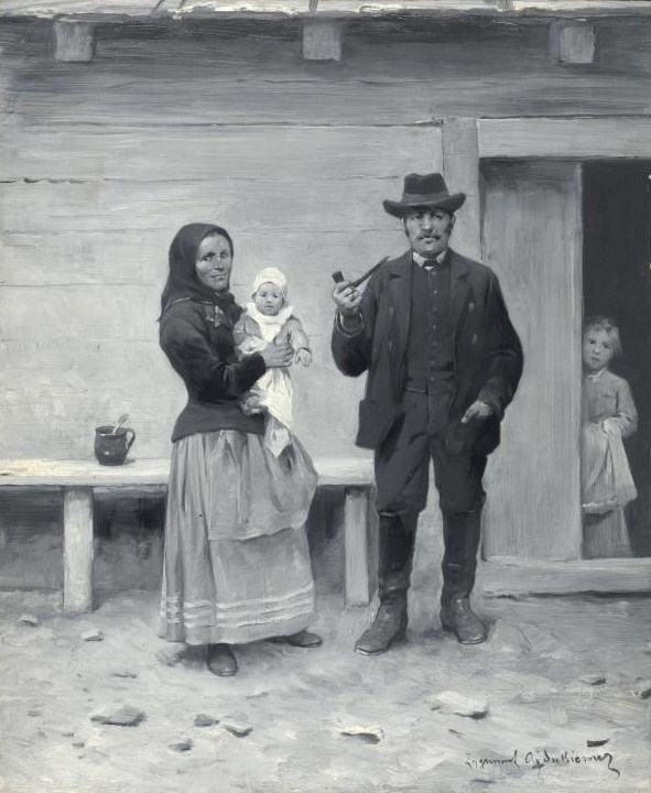 Polish Uplanders, in West Galicia.